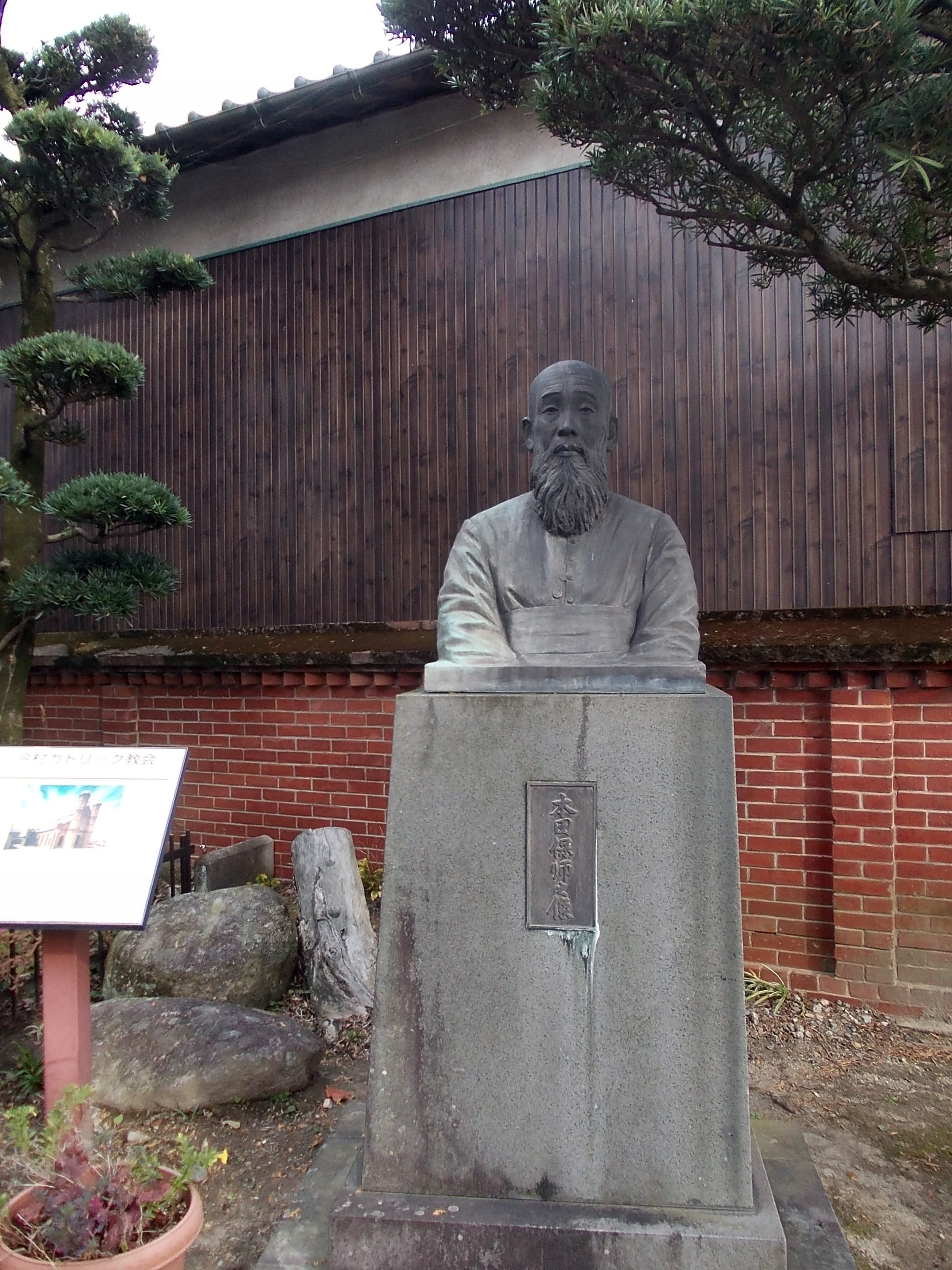 Statue of Tamotsu Honda, the fourth pastor, was appointed as a priest in September 1896. He made a renovation plan of the church, and solicited donations widely from overseas.